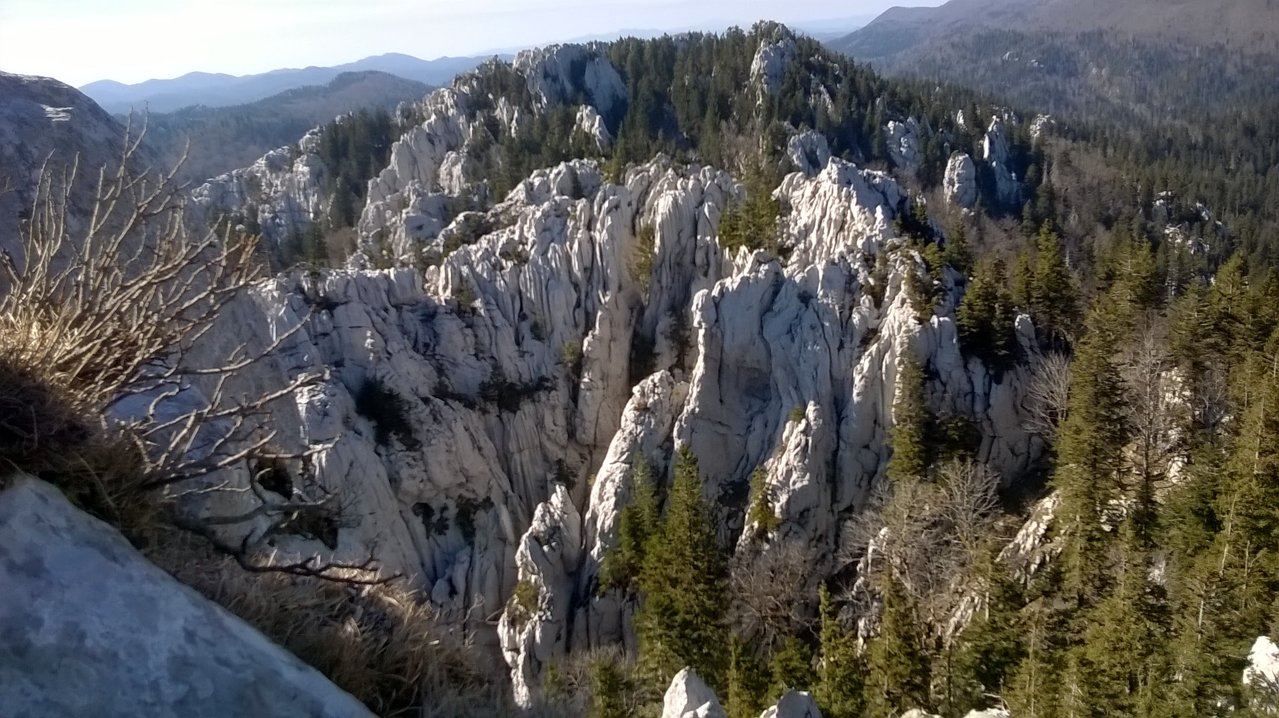 Bijele stijene, Lika